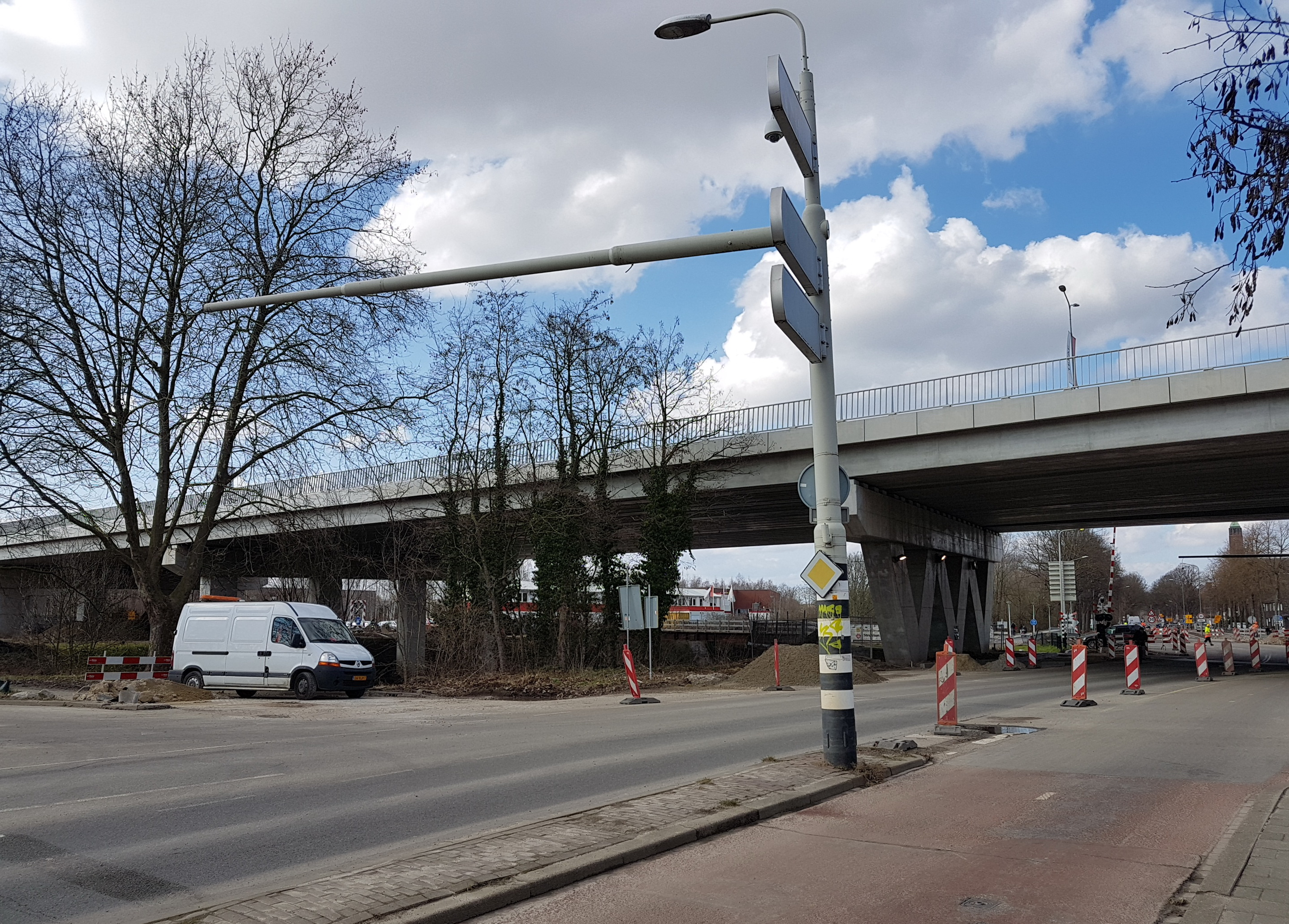 Fly-over at Bosscherweg in Maastricht, Netherlands. The reconstruction of the roads in this area are a result of the shifting of the Noorderbrug sliproad slightly to the north-west.